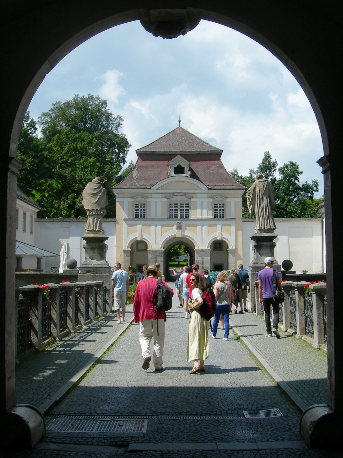 Stift Kremsmünster, Austria